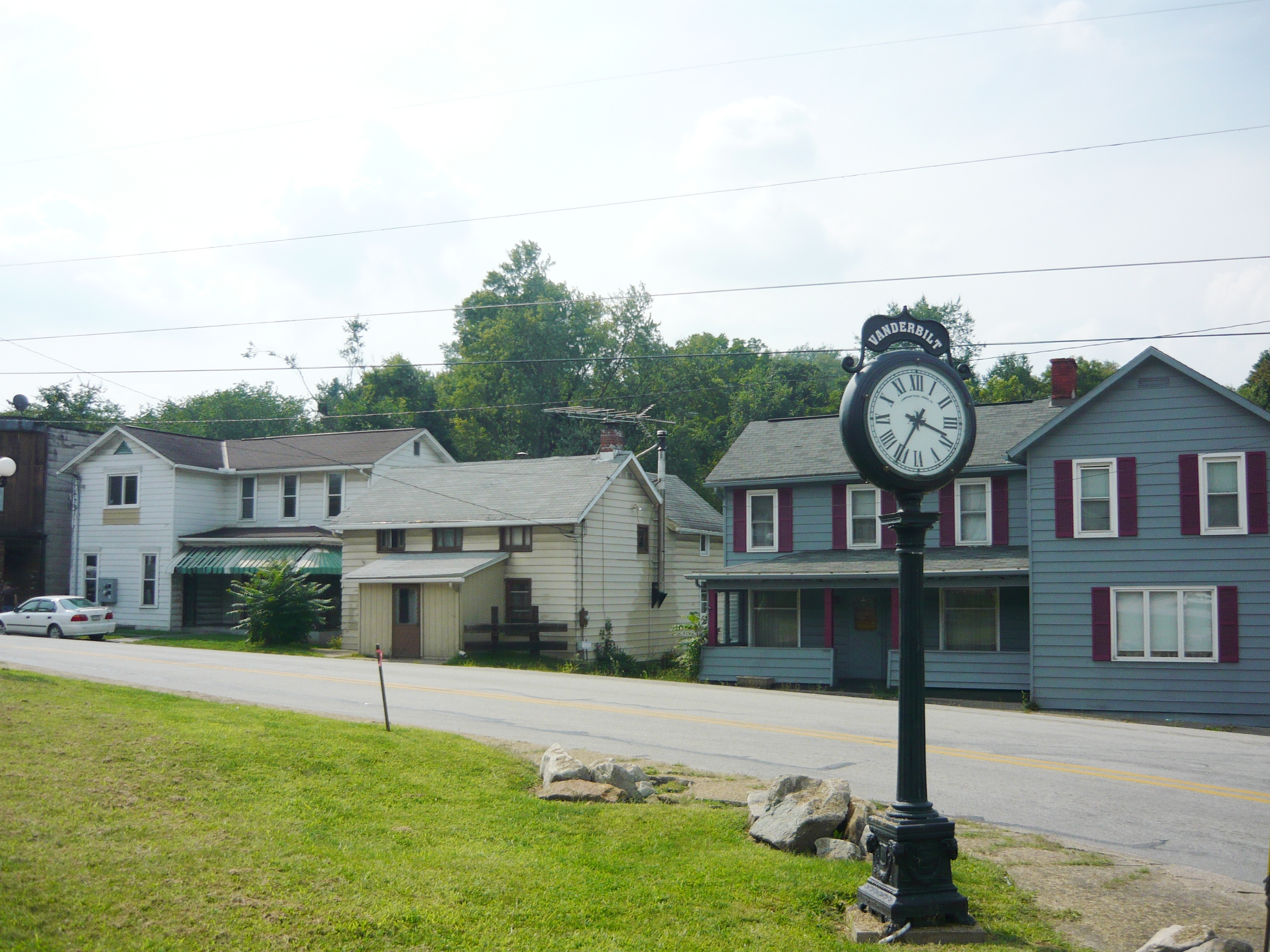 Main Street and Walnut Street, Vanderbilt, Fayette County, Pennsylvania.